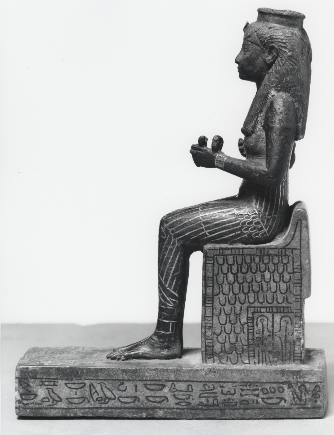 Emphasizing her maternal and nurturing aspects, Isis cups her breast with her right hand, offering it to a now-missing figure of her son, Horus.